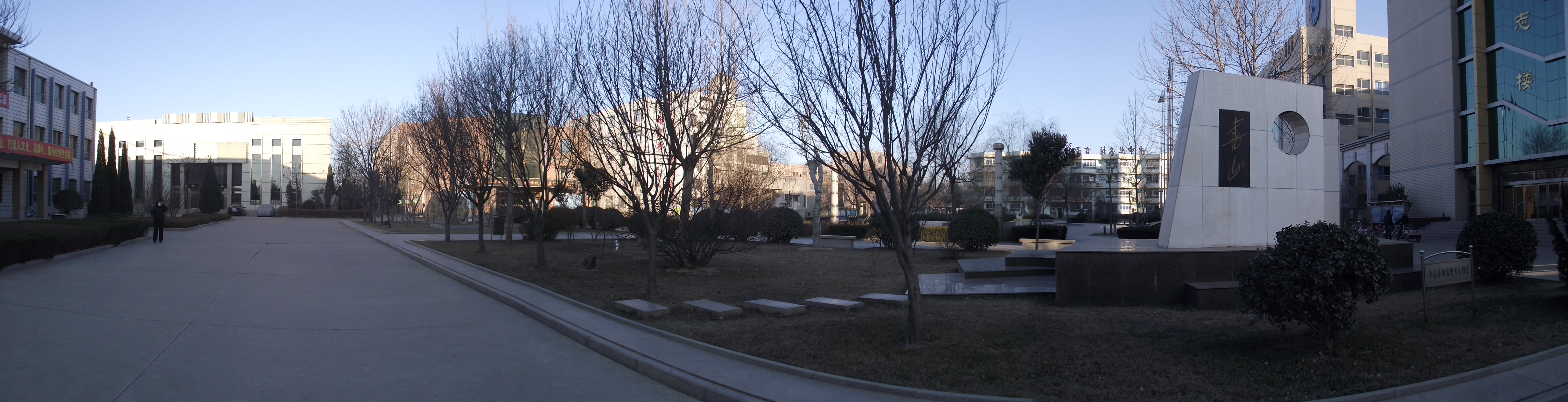 Panoramic view of Hengshui High School, Hebei.